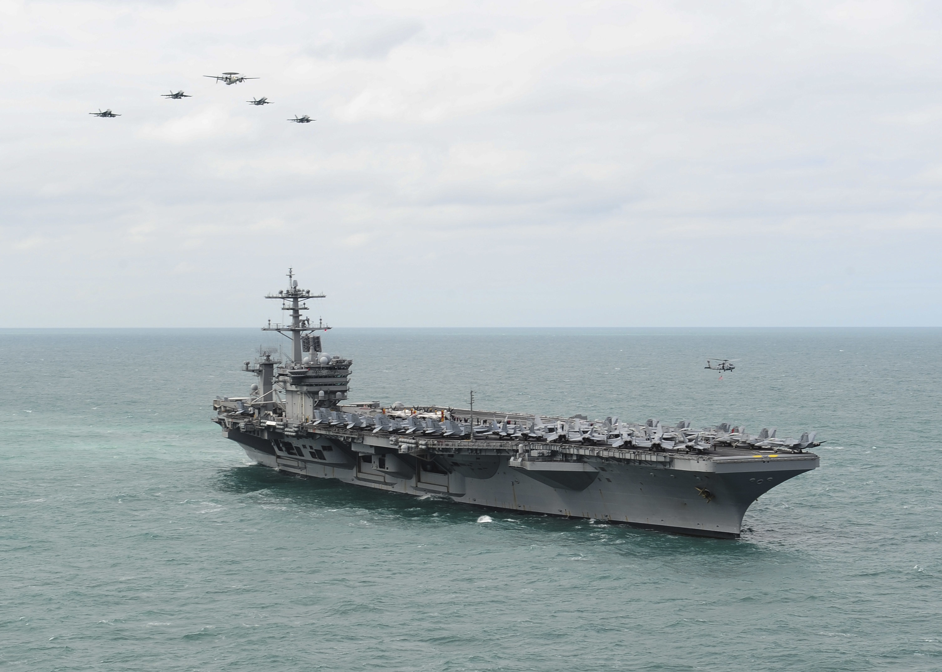 150322-N-ZF573-140 ATLANTIC OCEAN Aircraft from Carrier Air Wing 1 fly in formation over the Nimitz-class aircraft carrier USS Theodore Roosevelt during an airpower demonstration March 22, 2015. Theodore Roosevelt, homeported in Norfolk, is conducting naval operations in the U.S. 6th Fleet area of operations in support of U.S. national security interests in Europe.